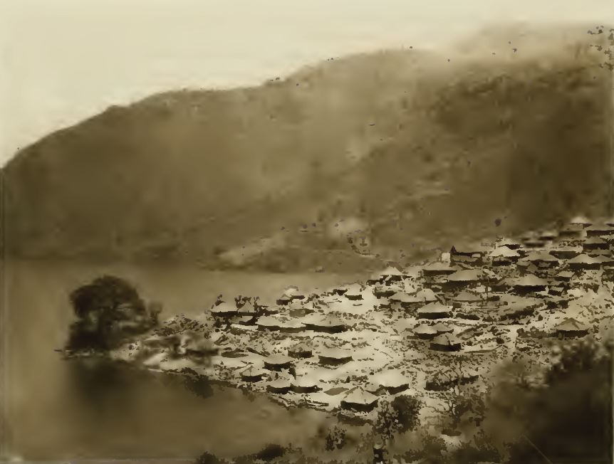 San Antonio Palopó, Sololá Guatemala in 1895.